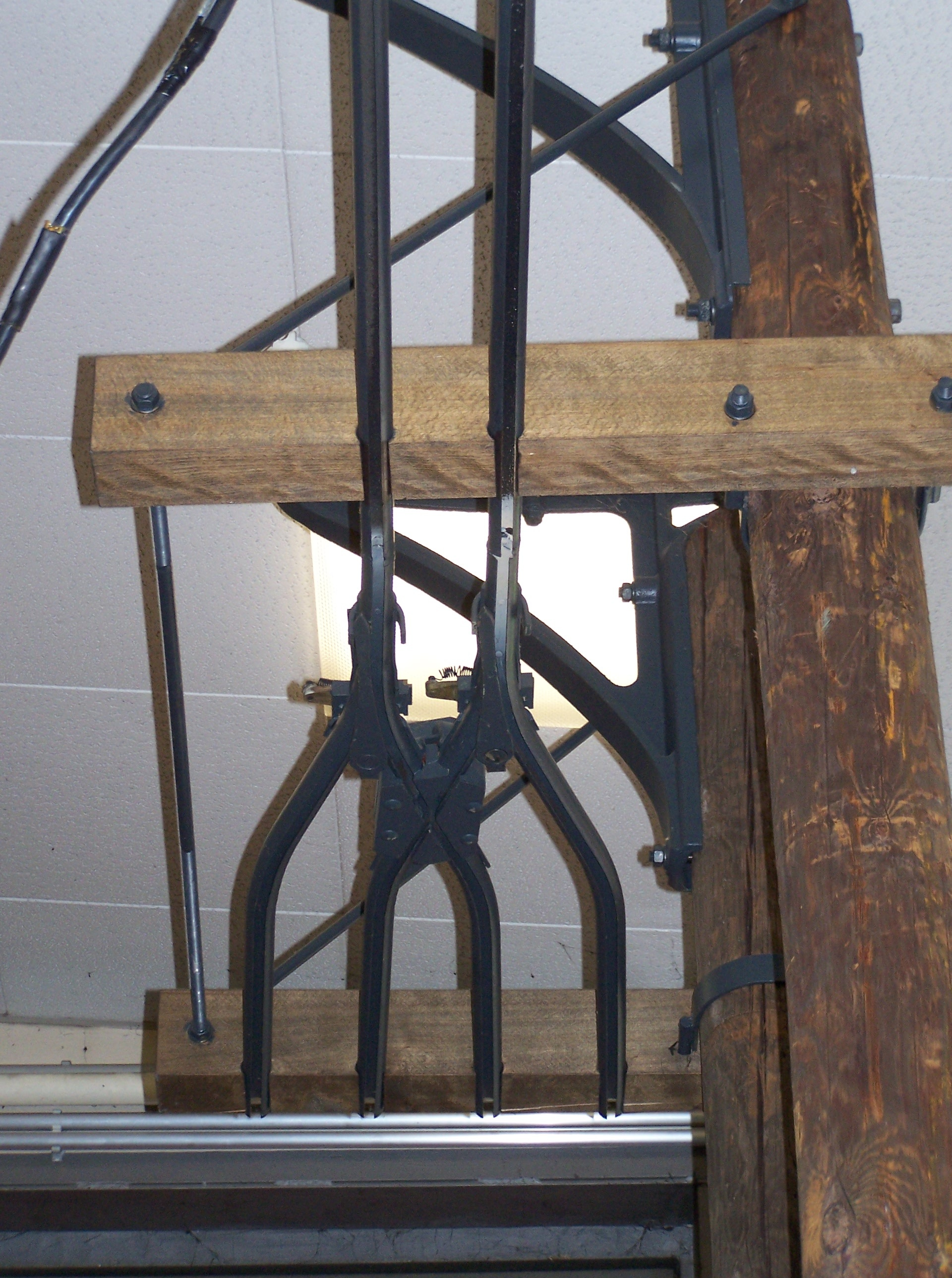 switch of a slitted tube catenary wire of the Frankfurt-Offenbacher Trambahn-Gesellschaft (FOTG) at the Frankfurt on Main Transport Museum in Frankfurt am Main--Schwanheim